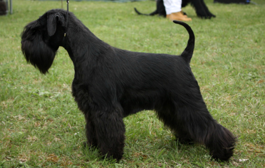 Elkost Zhakaranda Miniature Schnauzer